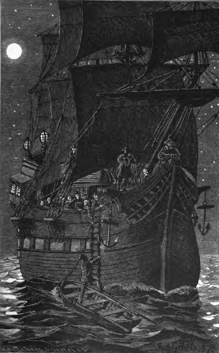 Boarding the "Flying Dutchman".